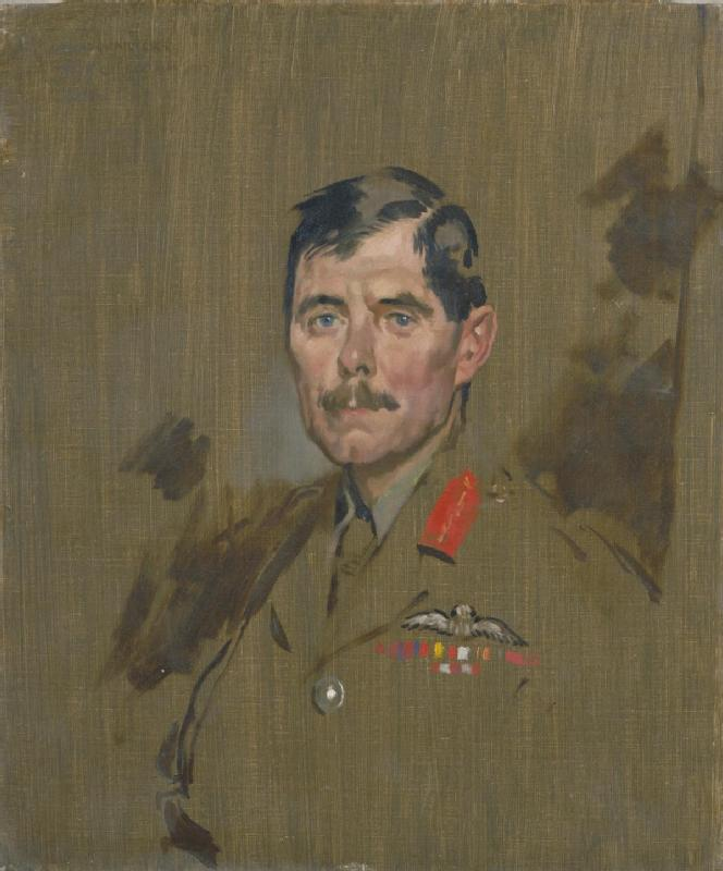 Image of a head and shoulders portrait of Major-General H. M. Trenchard in uniform and whilst he was Commander of the Royal Flying Corps in the field. Painted at RFC General Headquarters. Trenchard's upper torso blends in with the textured brown background.